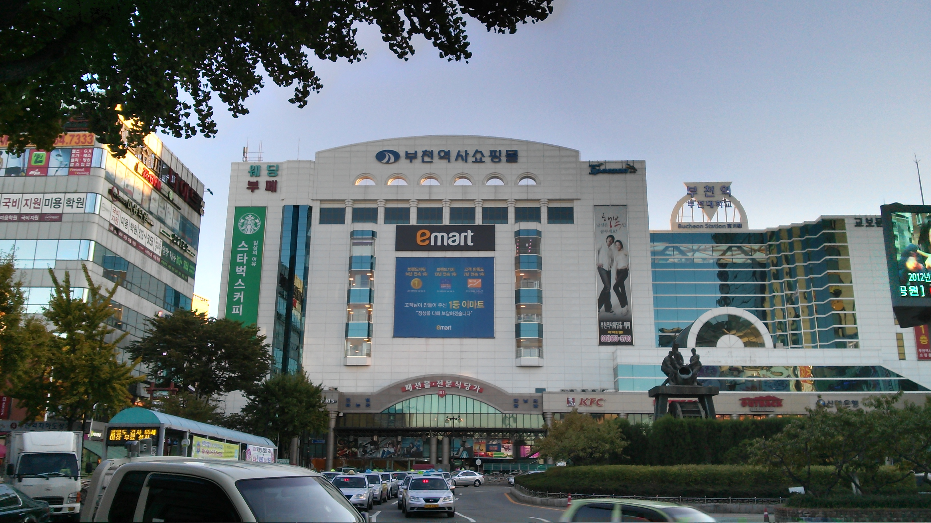 E-Mart Bucheon Station Branch (Center) and Bucheon Station Shopping mall